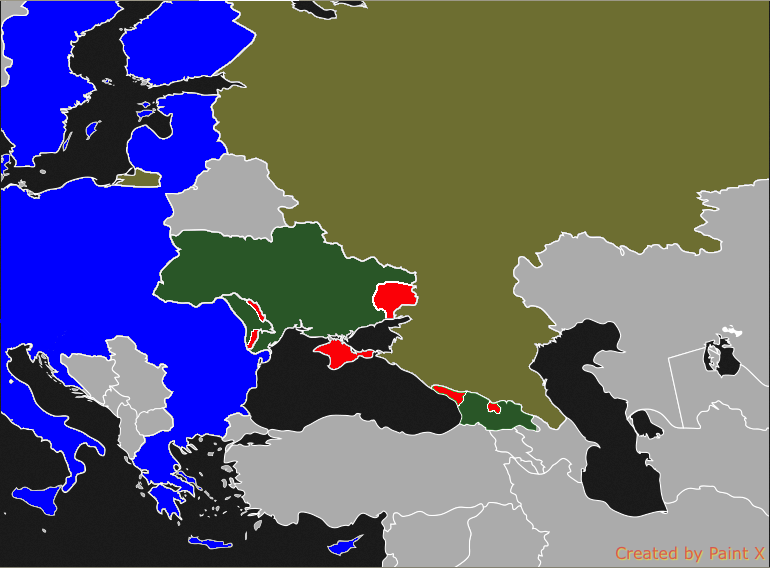 Pro-russian activity at East Europe between 1992 and 2014.In brown, Russian Federation; in blue, European Union; in green involved states (Ukraine, Moldova and Georgia); in red affected countries (from west to east: Gagauzia, 2014; Transnitria, 1992; Crimea, 2014; Donetsk and Luhansk, 2014; Abkhazia, 2008; South Ossetia, 2008).Map from File:Europe Location Georgia uncontrolled highlighted proper.svg